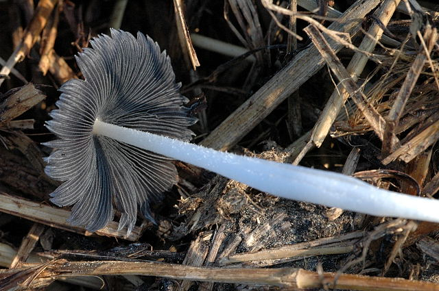 Coprinopsis spec. from Commanster, Belgium. The determination of the species shown in this picture has been verified.